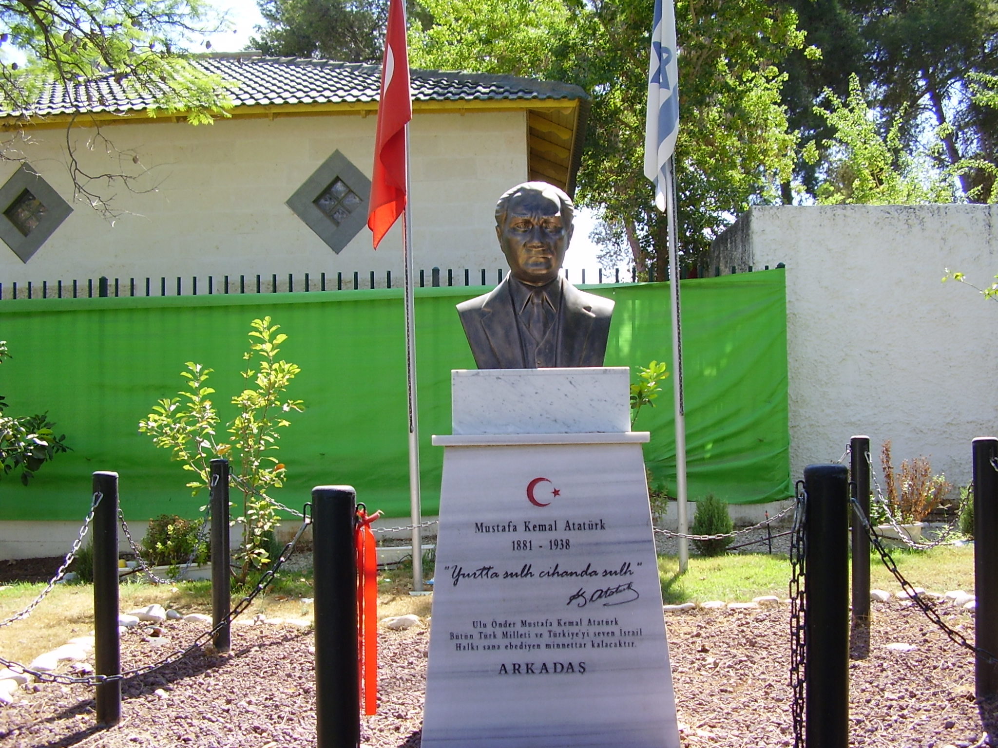 Mustafa Kemal Atatürk Memorial built by Arkadaş Association in Yehud, Israel